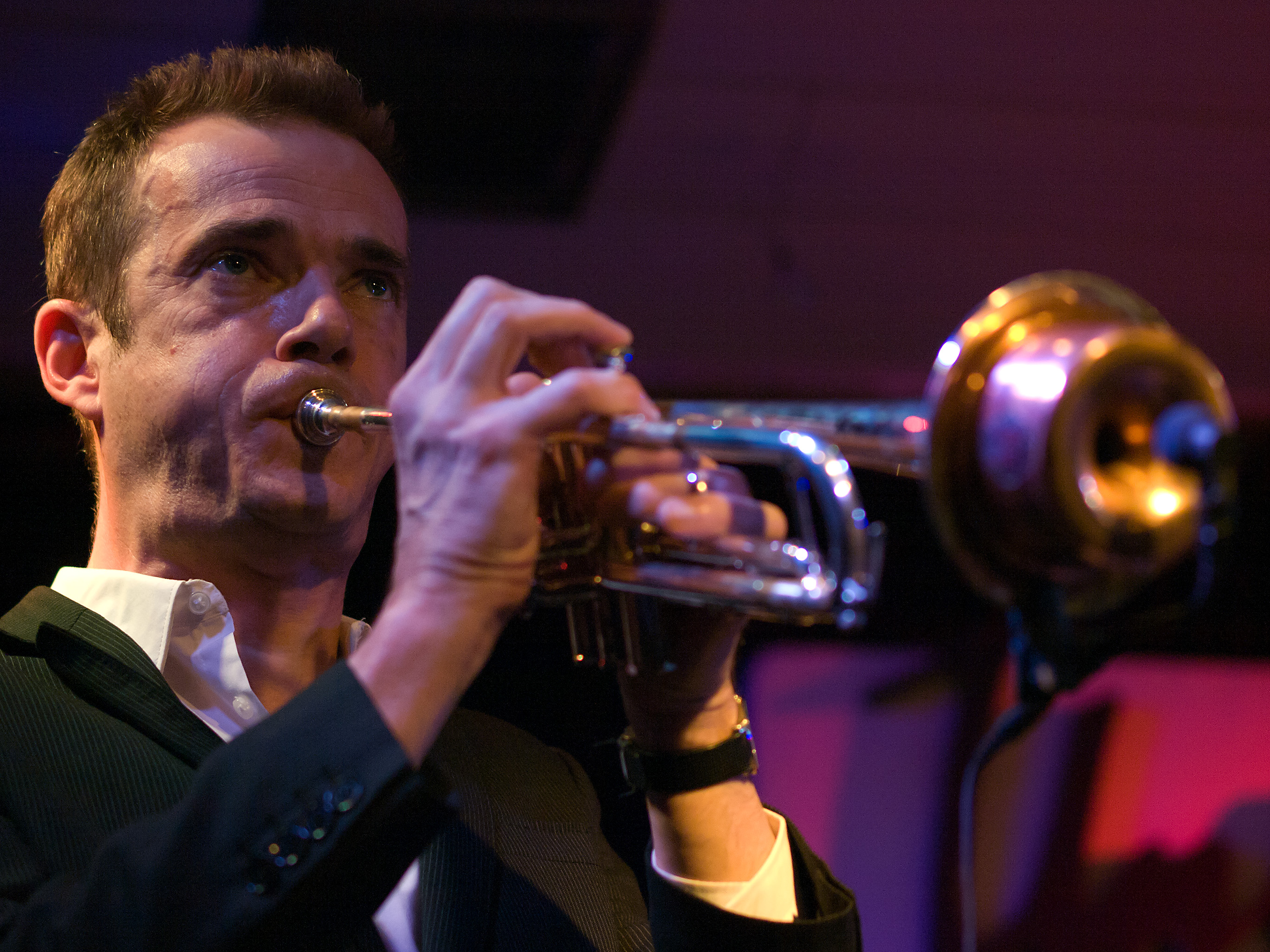 Pete Judge, Jazz trumpeter; Picture taken in Jazz Club Unterfahrt, Munich/Bavaria